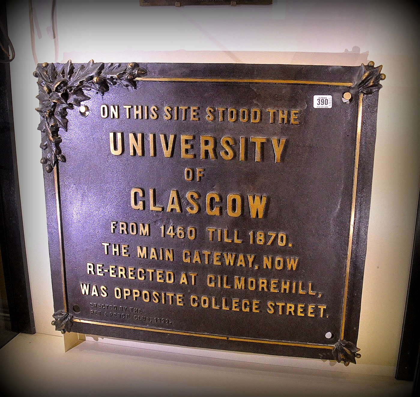 The inscription reads "On this site stood the University of Glasgow from 1460 till 1870. The main gateway now, re-erected at Gilmorehill, was opposite College street.